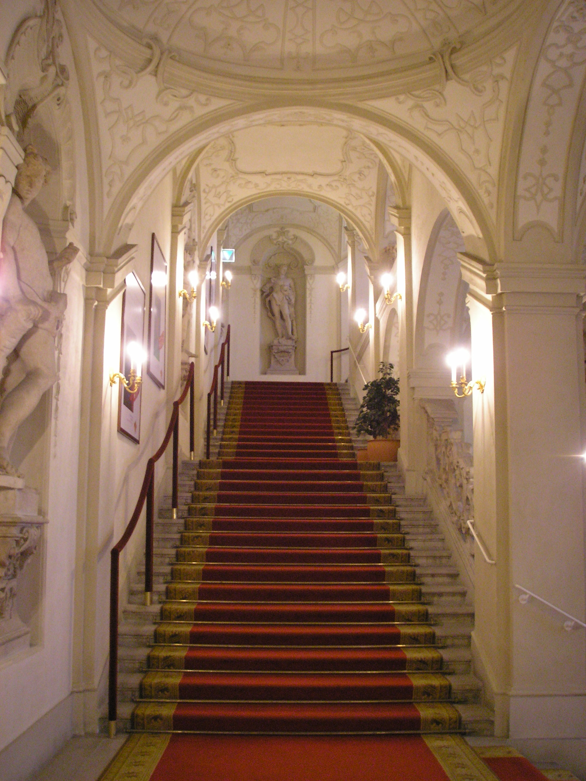 Grand staircase of the Palais Kinsky in Vienna, at the Freyung. The palace was owned by the noble Kinsky von Wichnitz und Tettau comital family. It was constructed during the baroque age as a Stadtpalais (city-palace).